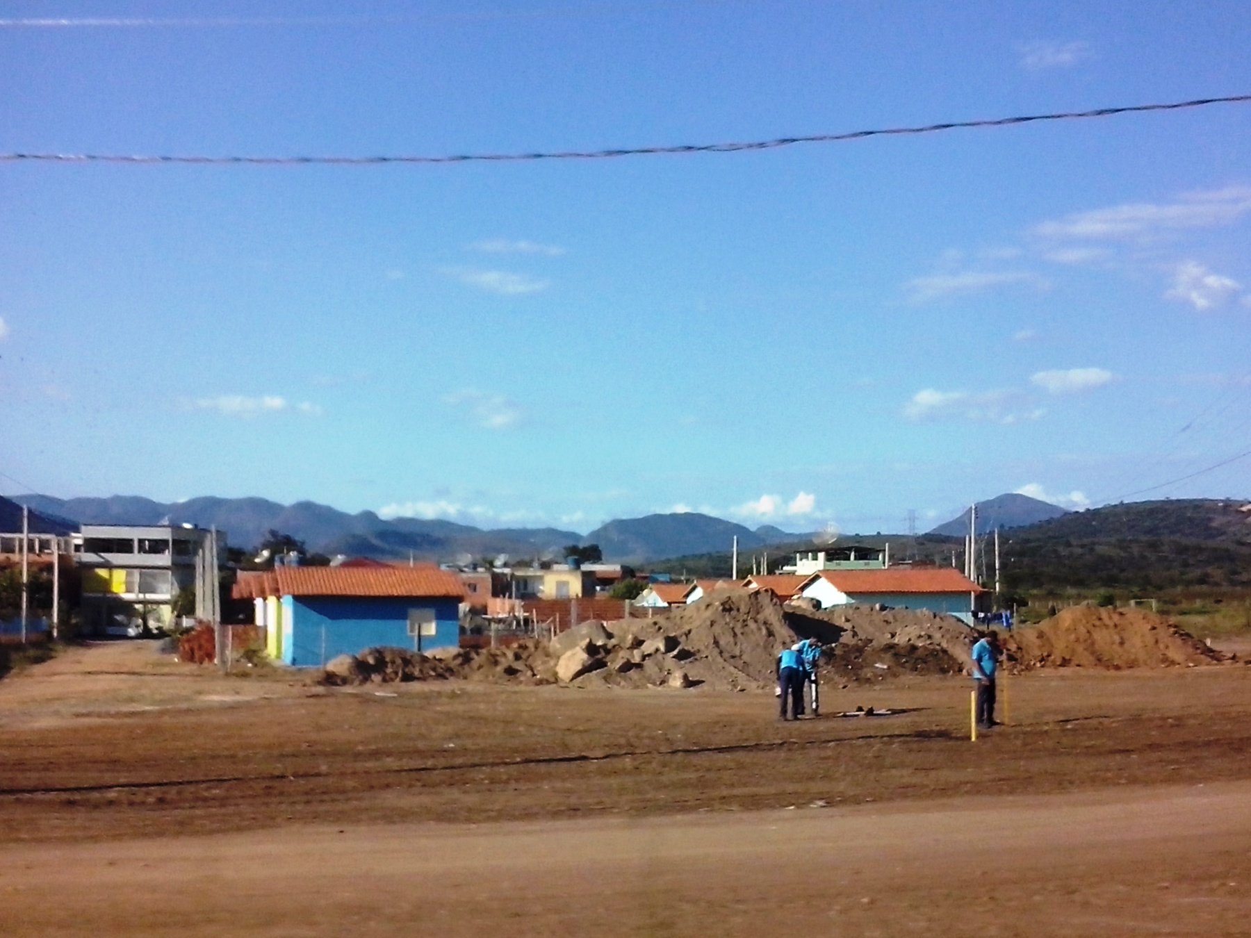 Popular houses in the Valparaíso neighborhood, in Baixo Guandu, Espírito Santo, Brazil.